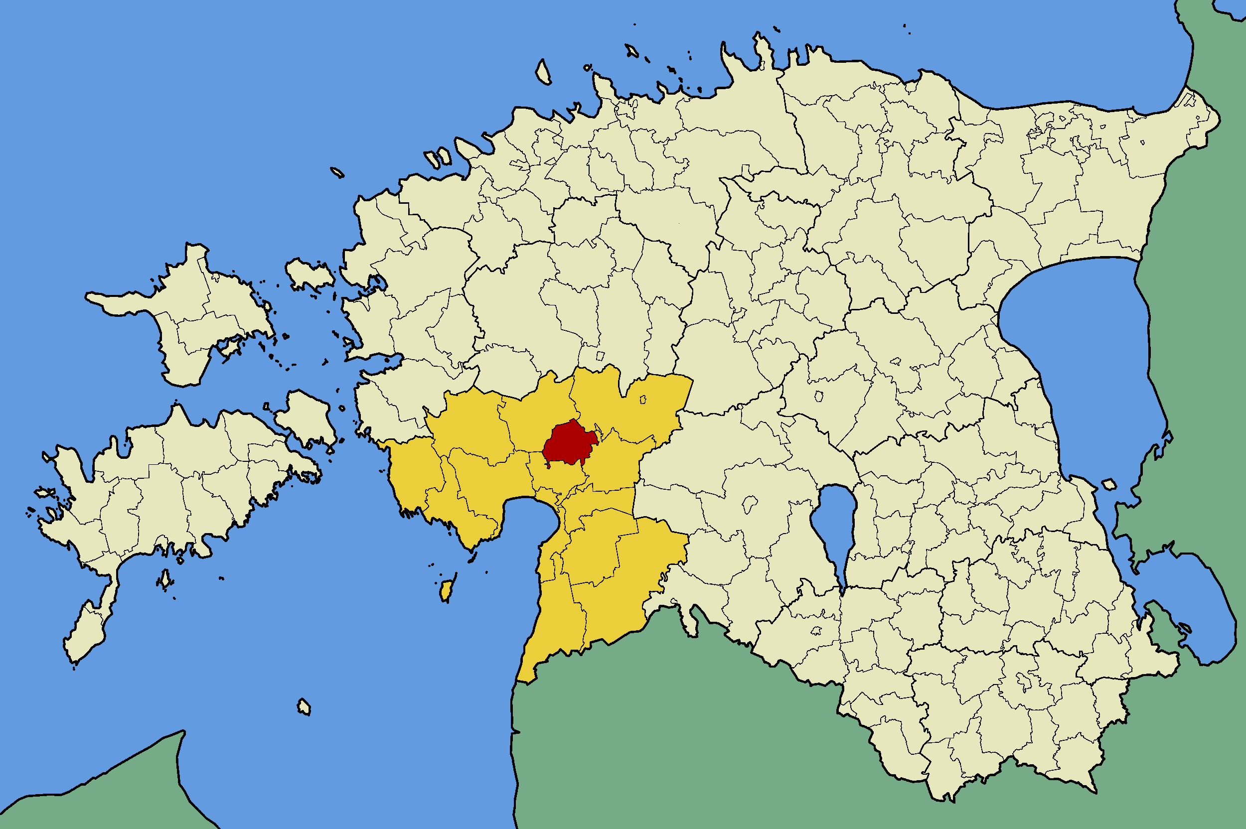 Map of Estonia with borders of municipalities (parishes). Pärnu county and Are municipality emphasized.